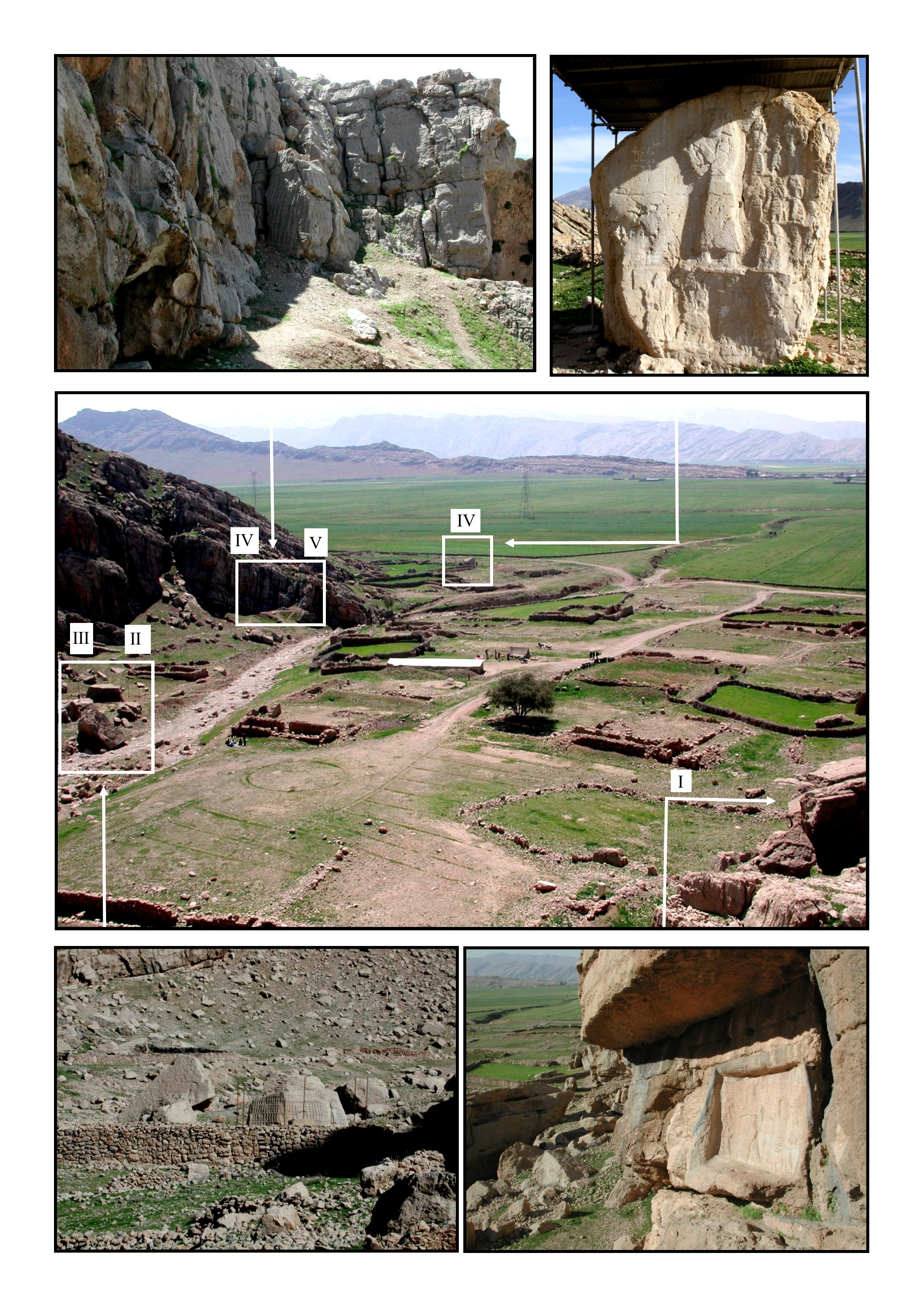 View of Kul-e Farah with location of six Elamite rock reliefs